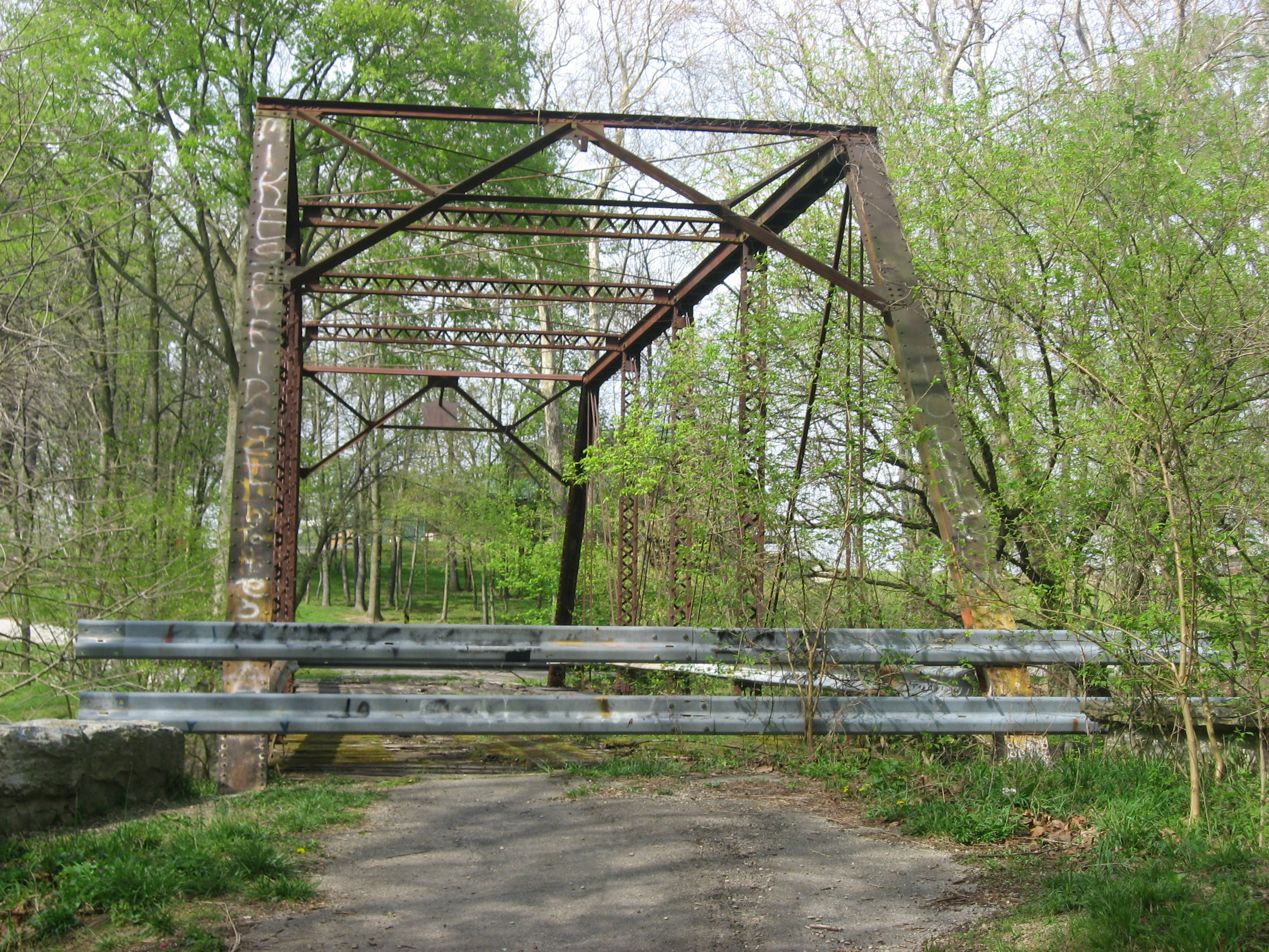 Southern portal of the Rush County Bridge No. 188, which formerly carried Railroad Street over the Little Flatrock River at Milroy, Indiana, United States. Built in 1901 and now closed, it is listed on the National Register of Historic Places.